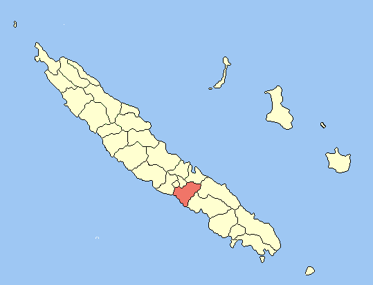 Created map myself.